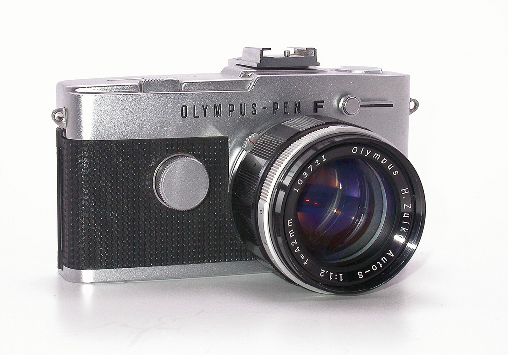 Pen F fitted with H. Zuiko Auto-S f1.2 42mm lens.